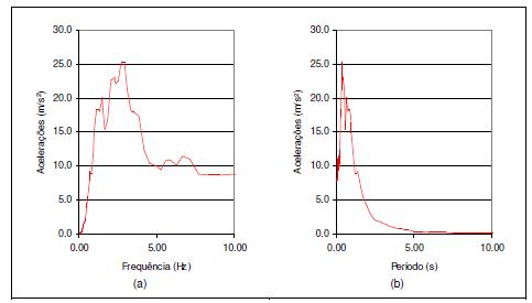 grafico espectro de resposta